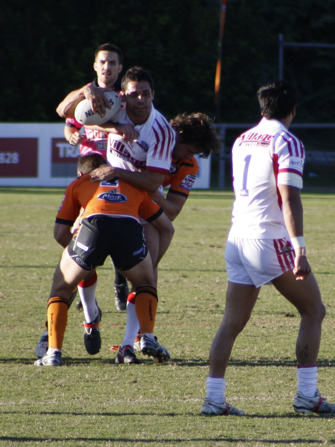 Redcliffe Dolphins player tackled by Easts at Langlands Park, Brisbane Australia